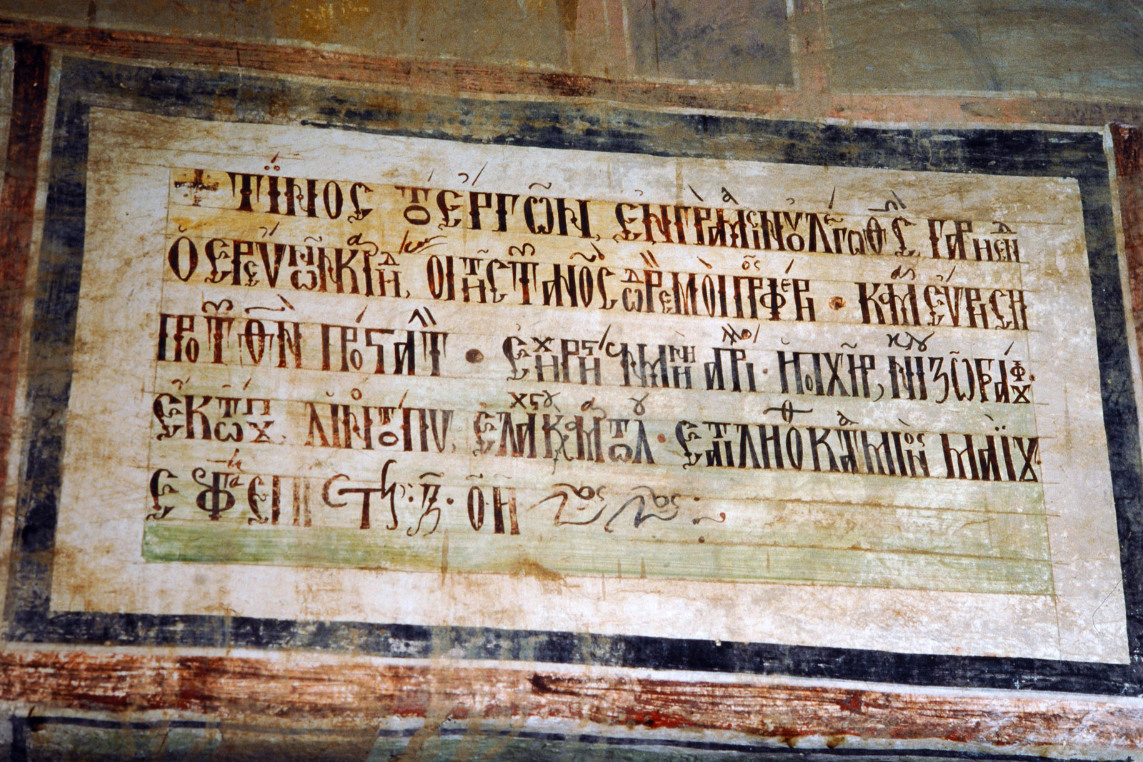 Palatitsia St. Demetrios Church Inscription.